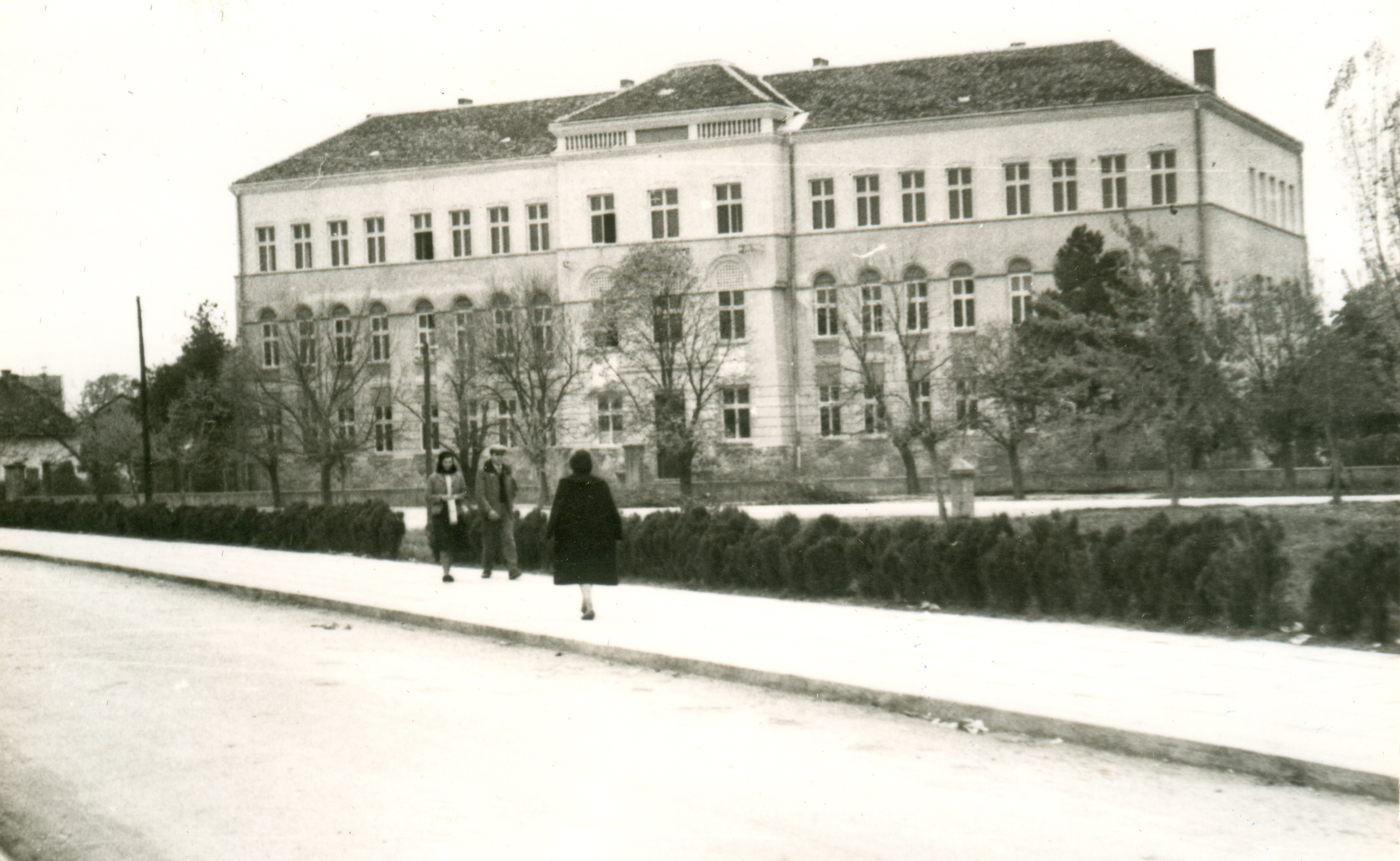 School for Teacher in Negotin